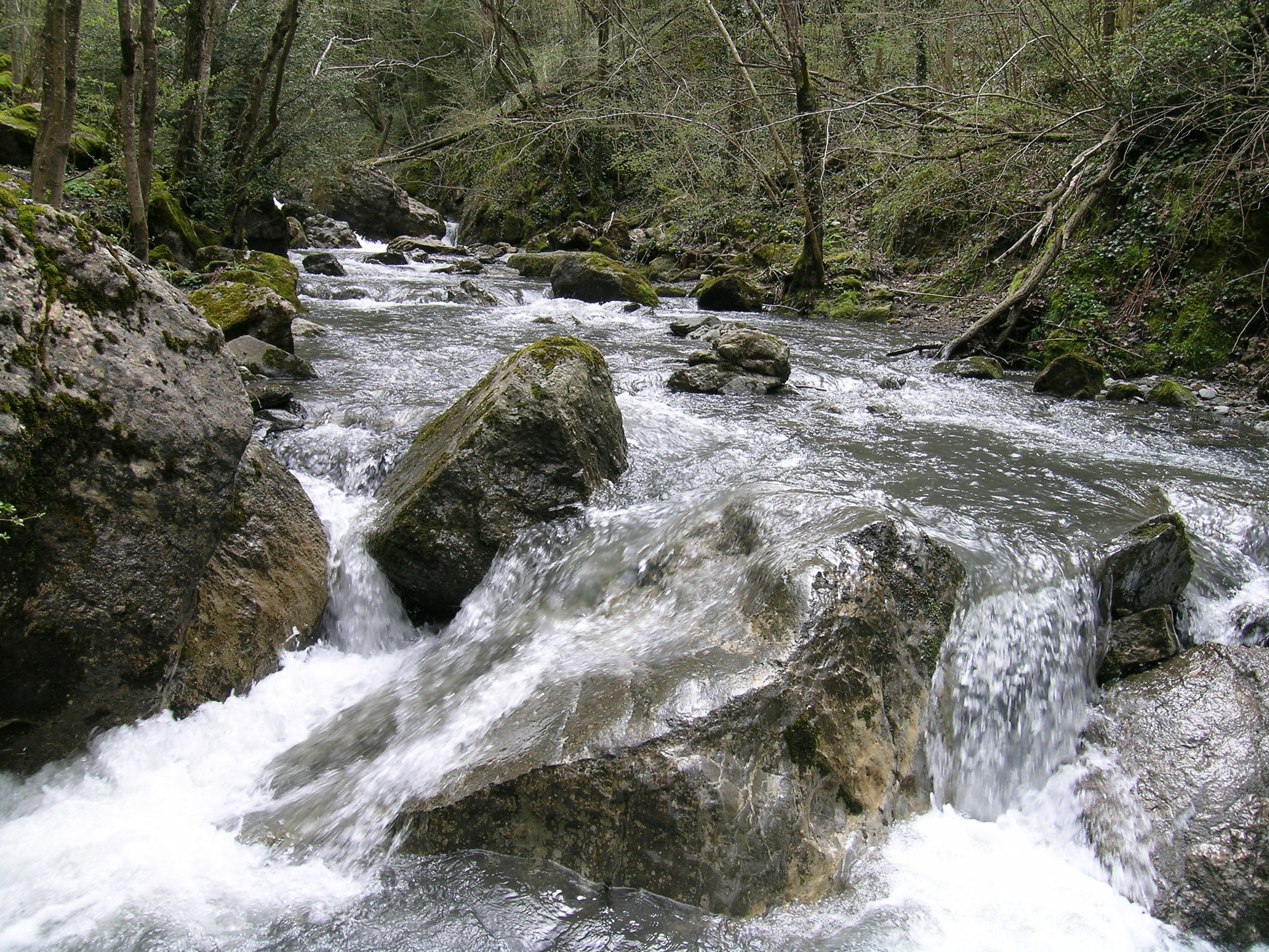 River Segadell - Pardines (1226 m) (Ripollès)